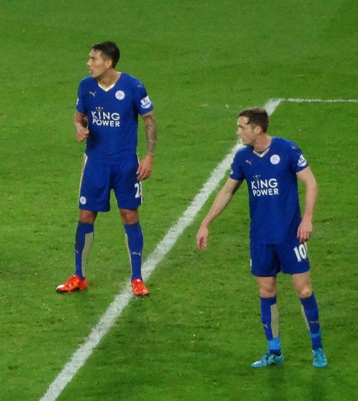 Leicester 2 Chelsea 1